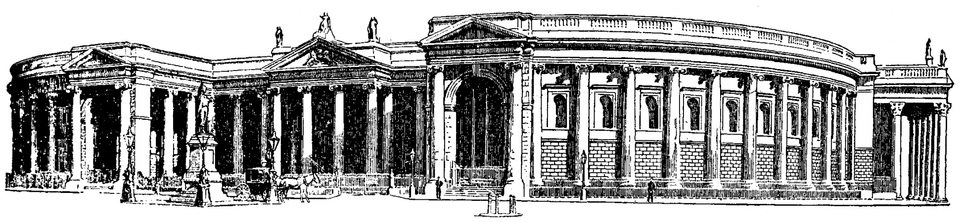 Originally begun as the Parliament House, this one-storey building is an example of early classic revival architecture. The beginning of the building belongs to the 18th century, but it was not completed in it's present form (1911) till 1805, and was the work of five successive architects, only one of them, James Gandon (1745-1823), a man of the first importance; but it was Gandon who in 1790 did most to give the building it's effective outline on plan, but introducing one of the curved quadrant walls, the building being subsequently finished in accordance with this suggestion.